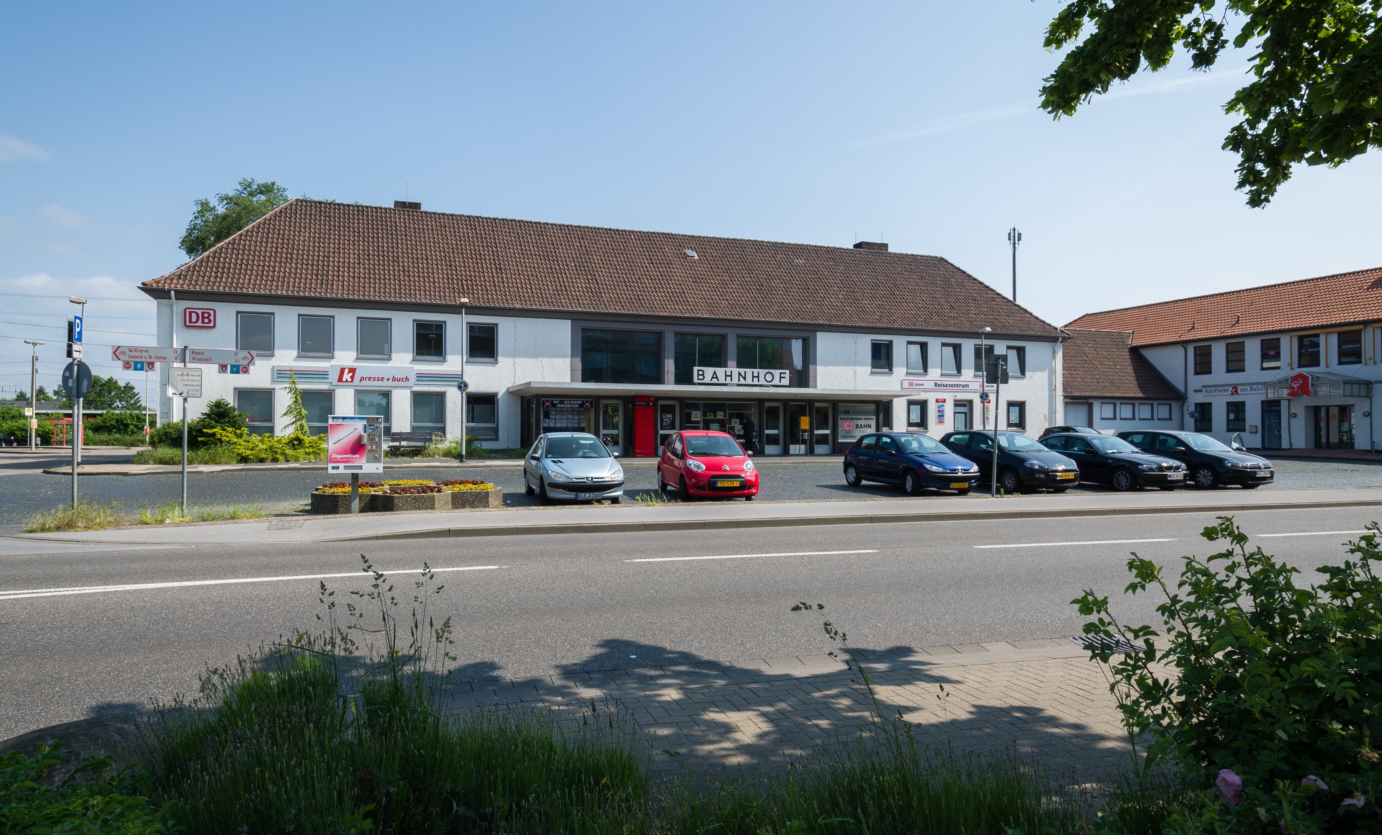 Emmerich Station